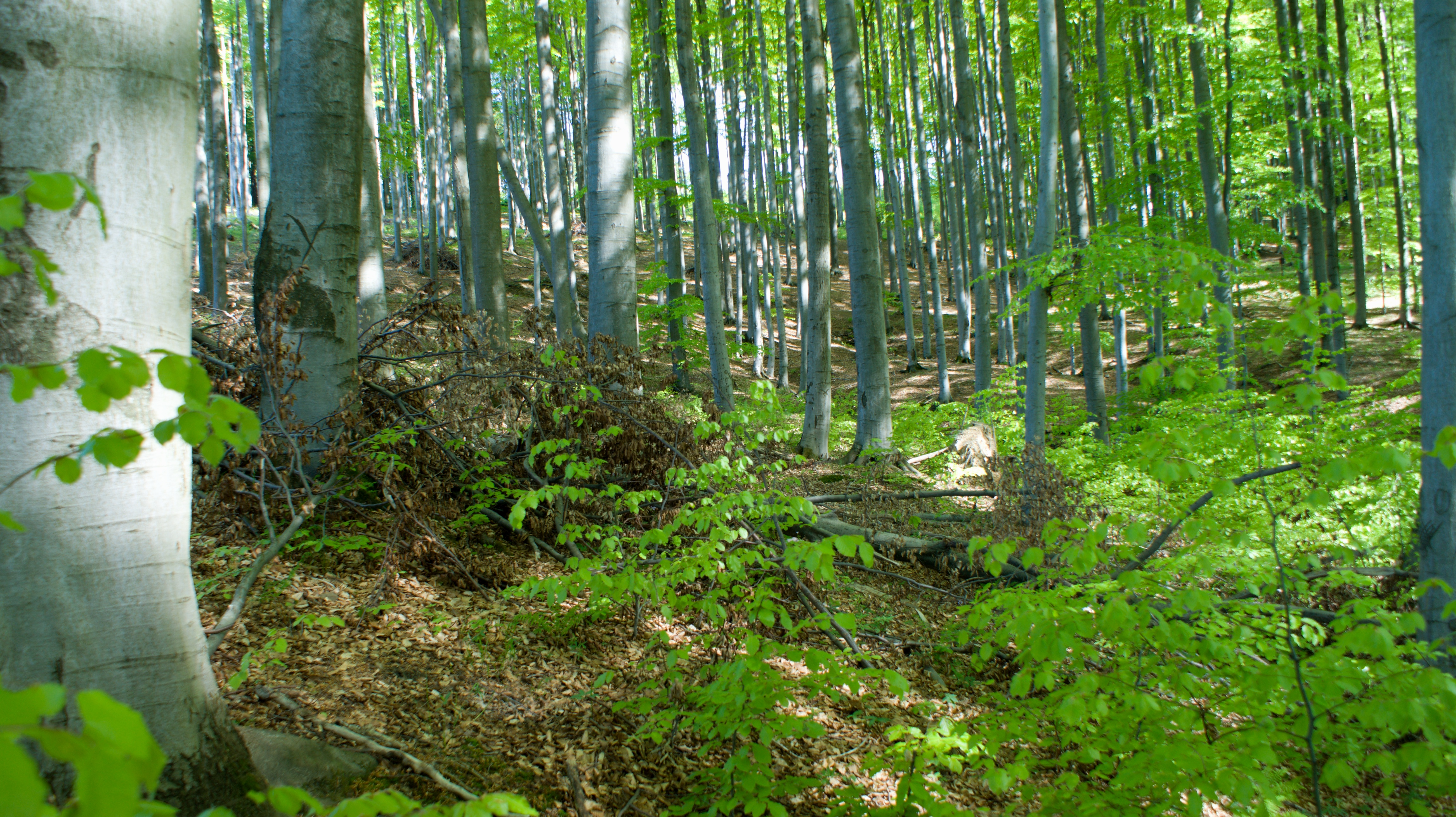 Natural monument Bernátka in Kroměříž District, Czech Republic